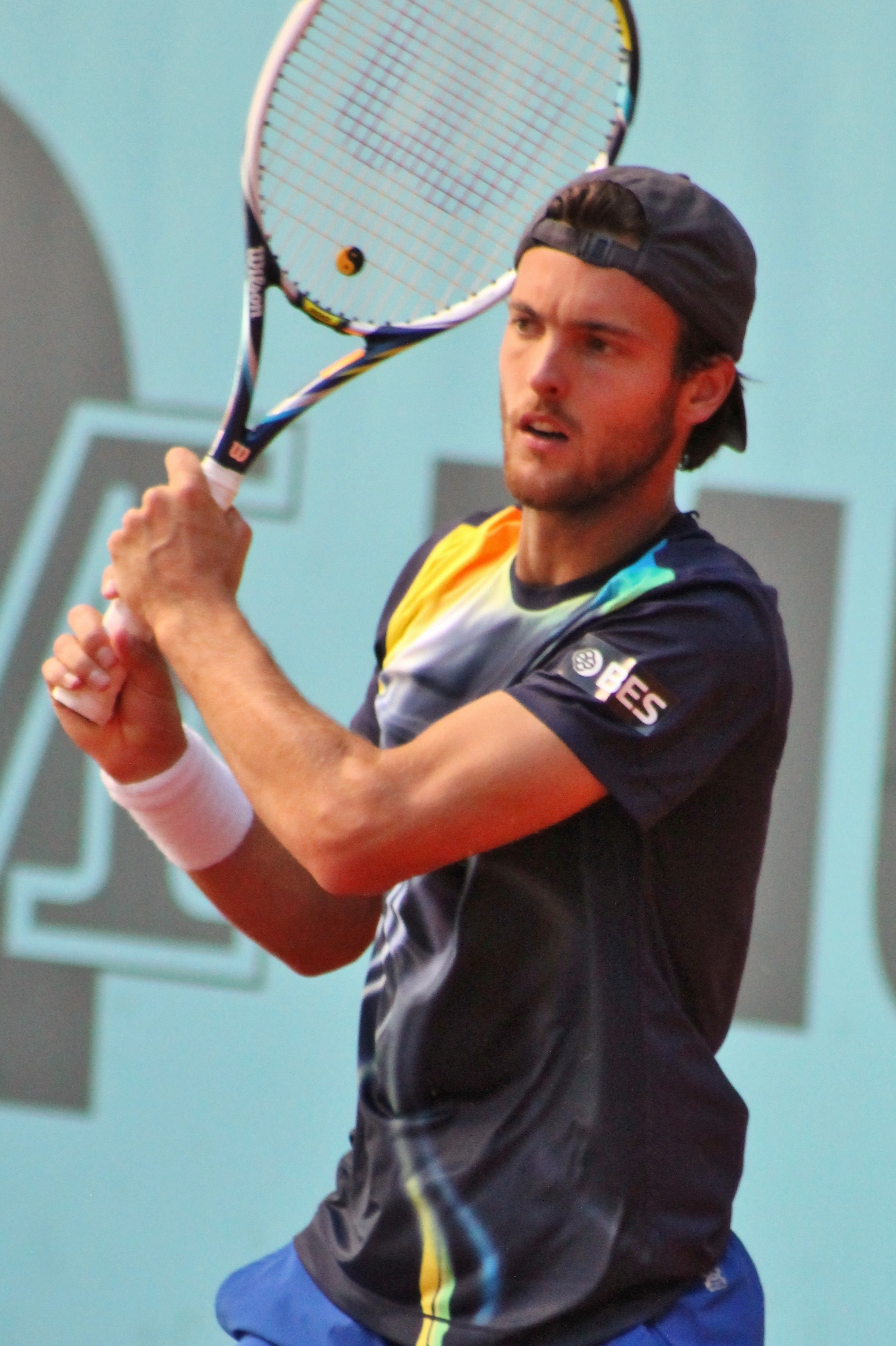 Sousa MA14 (5) - Copy